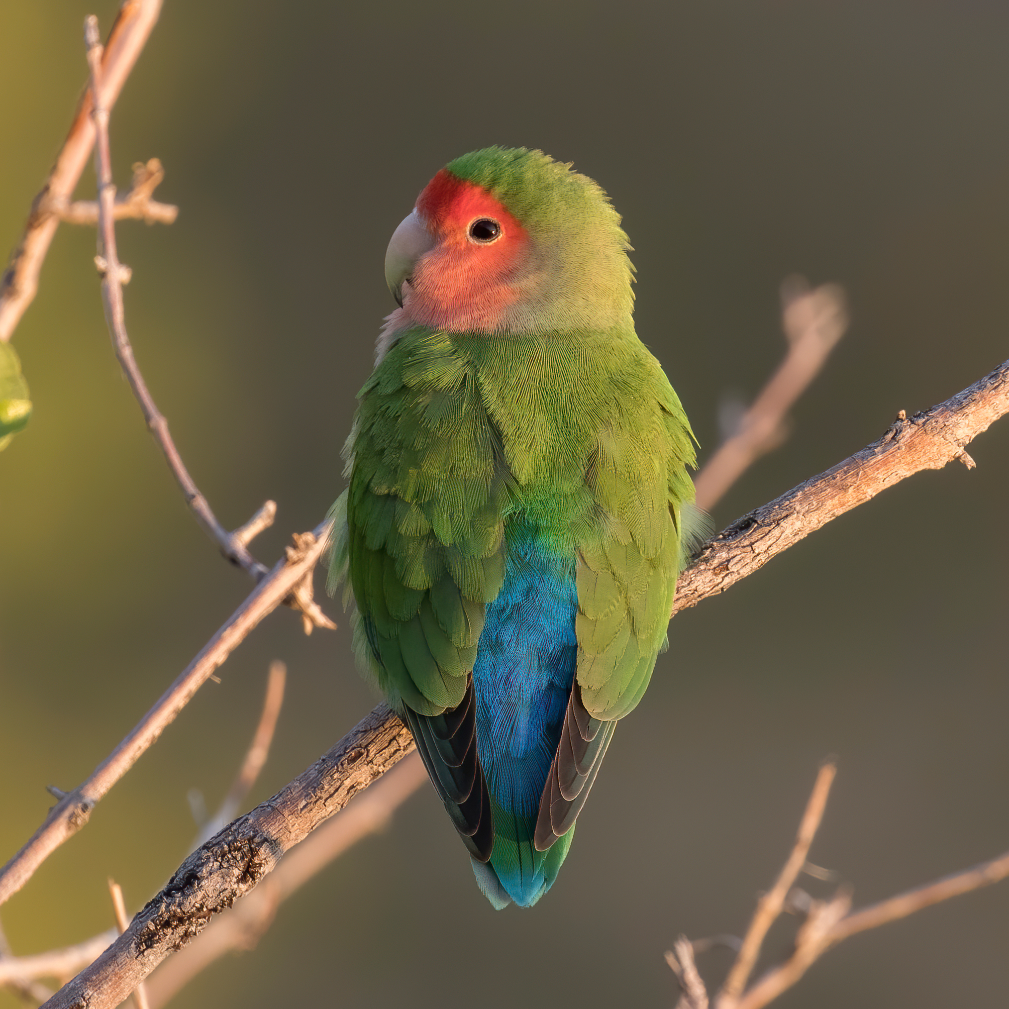 Rosy-faced lovebird (Agapornis roseicollis roseicollis), Erongo, Namibia